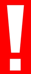 Notify NYC Logo